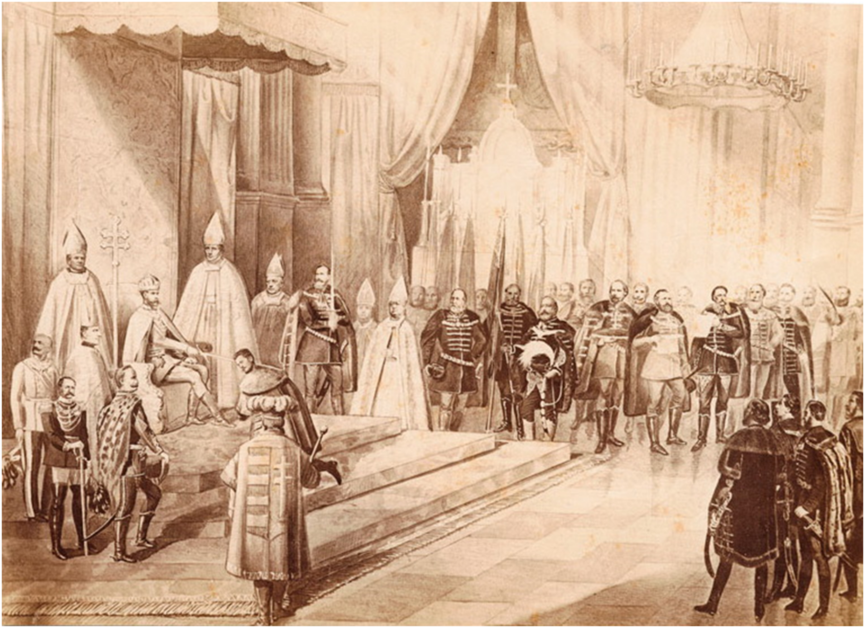 Creation of knights of the golden spur at the coronation of Franz Joseph I, in 1867